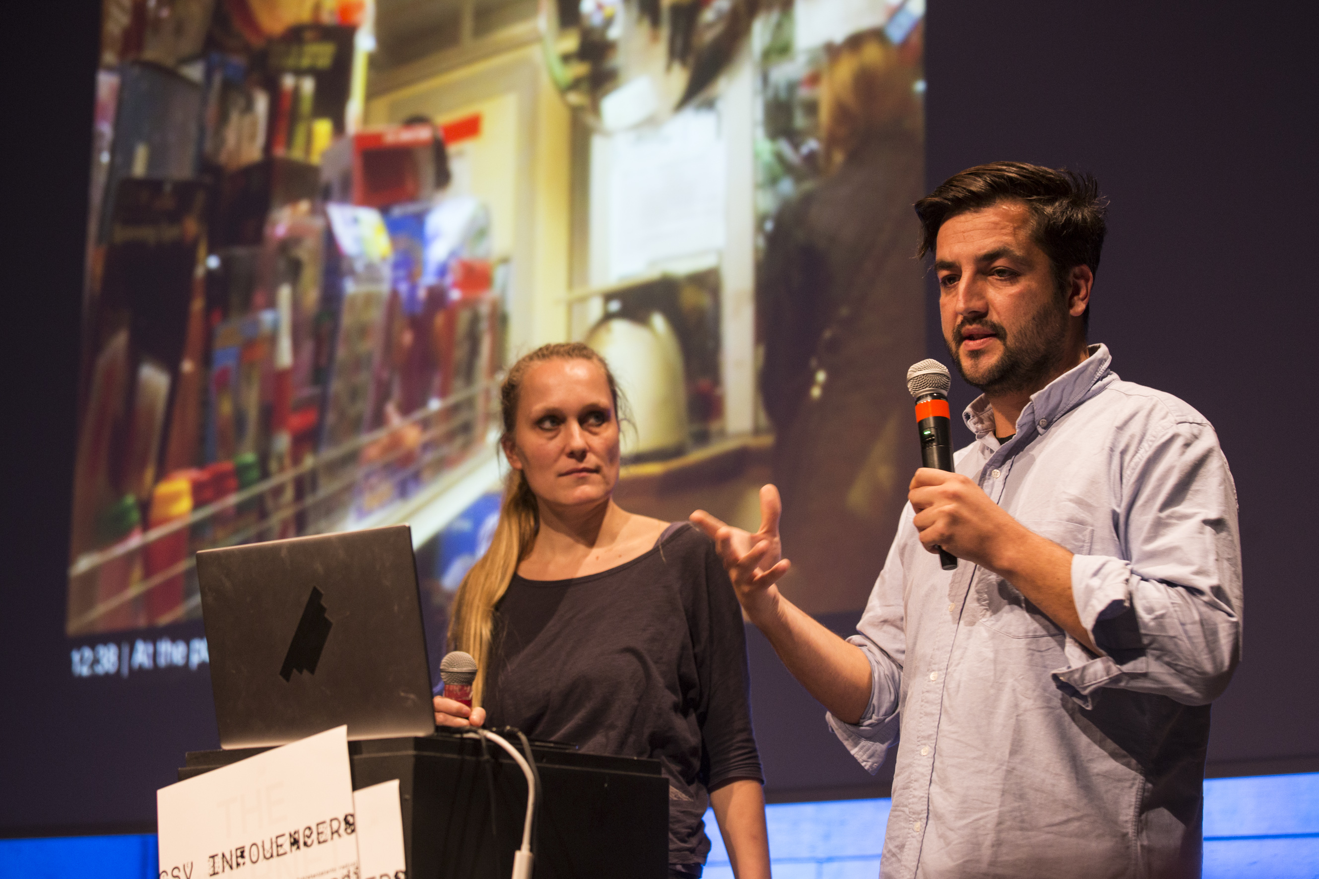 !Mediengruppe Bitnik at The Influencers 2015 Photo by CCCB / The Influencers